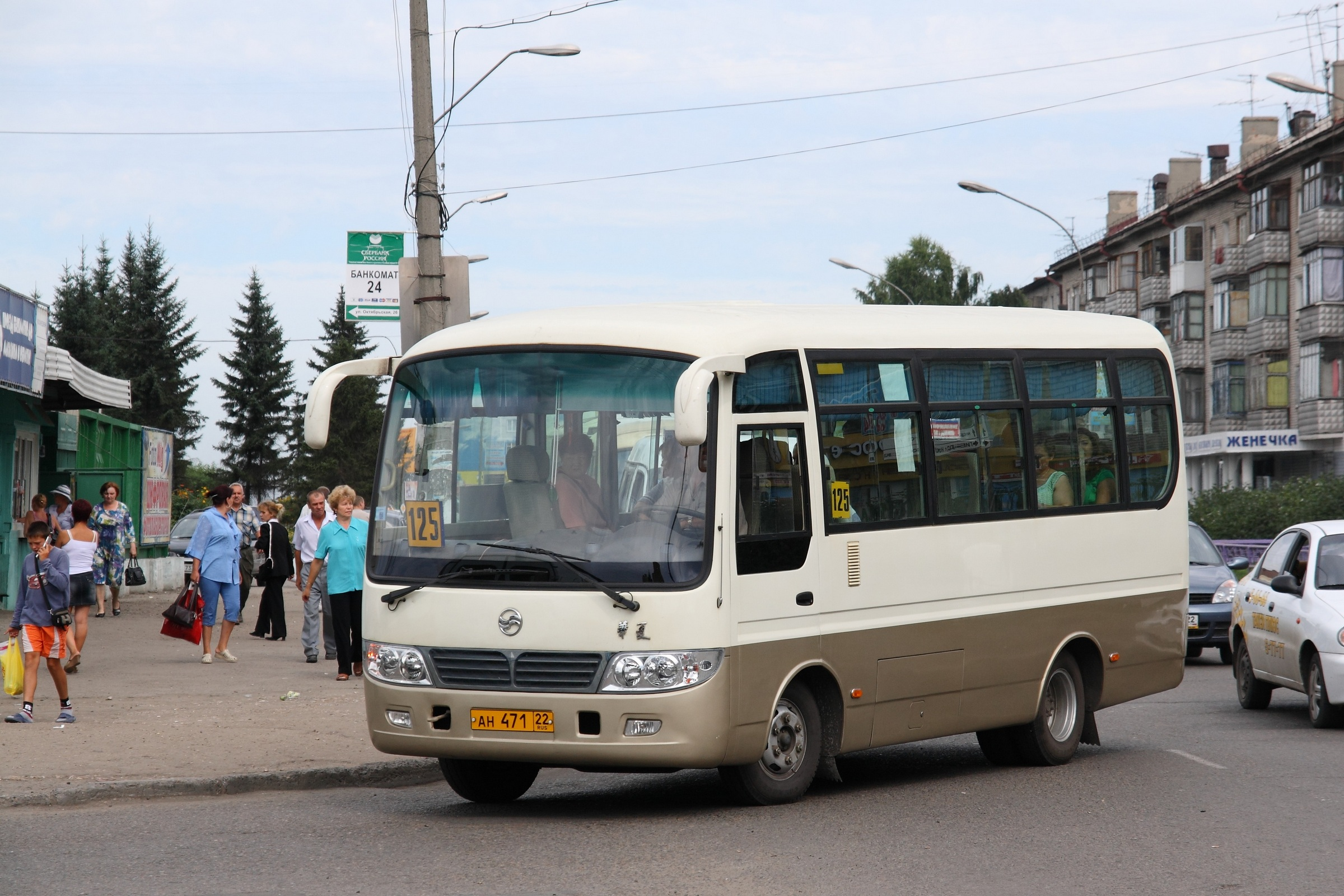 Minibus (marshrutka) in Novoaltaisk, Altai krai, Russia - Huaxia AC6650KJ